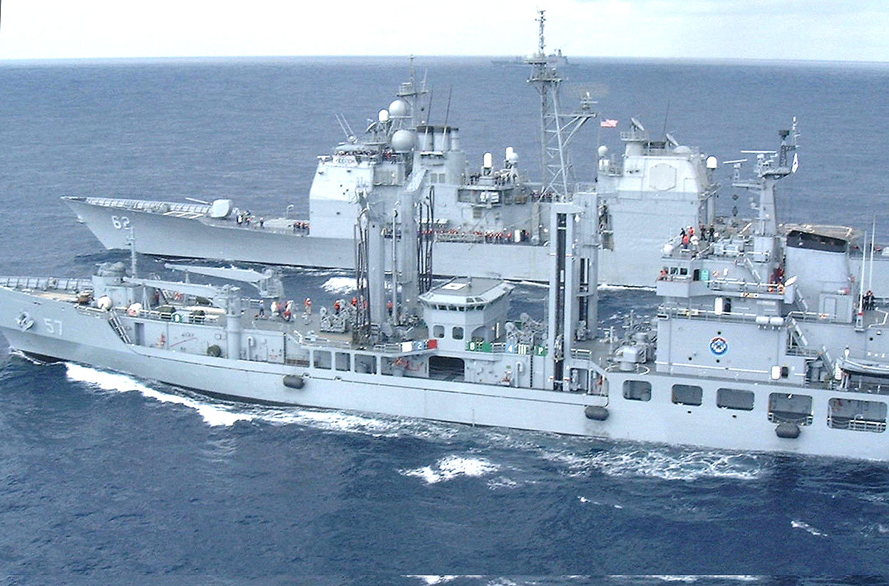 ABOARD USS CHANCELLORSVILLE AT SEA --USS Chancellorsville comes along side ROKS Cheonji (AOE 57), a Republic of Korea fuel supply ship Feb. 6 for an underway replenishment at sea. That same day, USS John S McCain, USS Curtis Wilbur and USS Cushing also conducted a RAS with the ROK ship. These forward-deployed ships from Yokosuka, Japan were underway as part of a multi-sail exercise, which is a series of evolutions that provide training in air, surface and undersea warfare. (U.S. Navy photo)